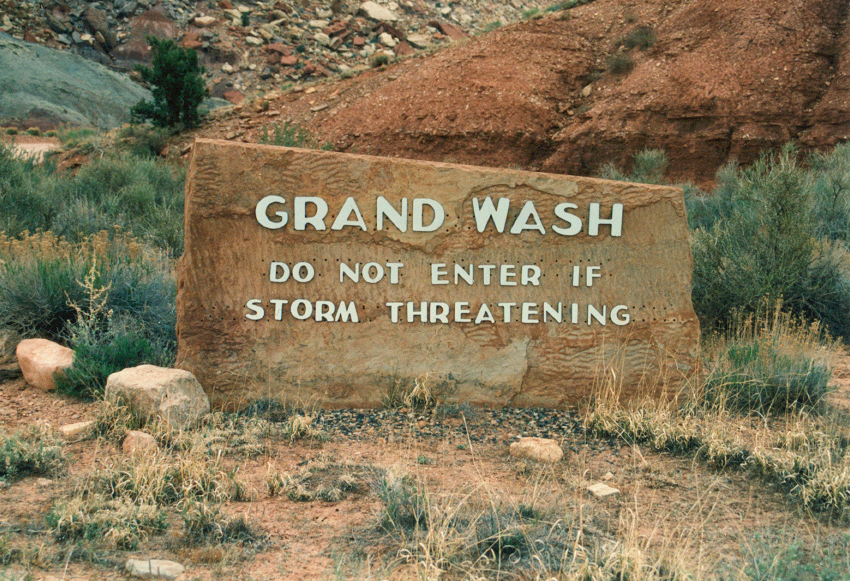 Capitol Reef National Park is located in southern central Utah, United States. Warning at the entrance to the Grand Wash Canyon.